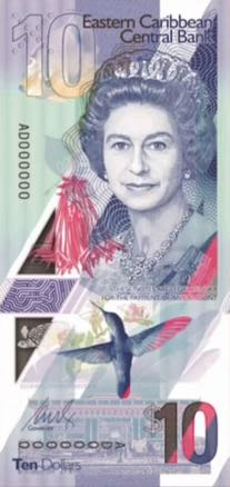 East caribbean states eccb 10 dollar